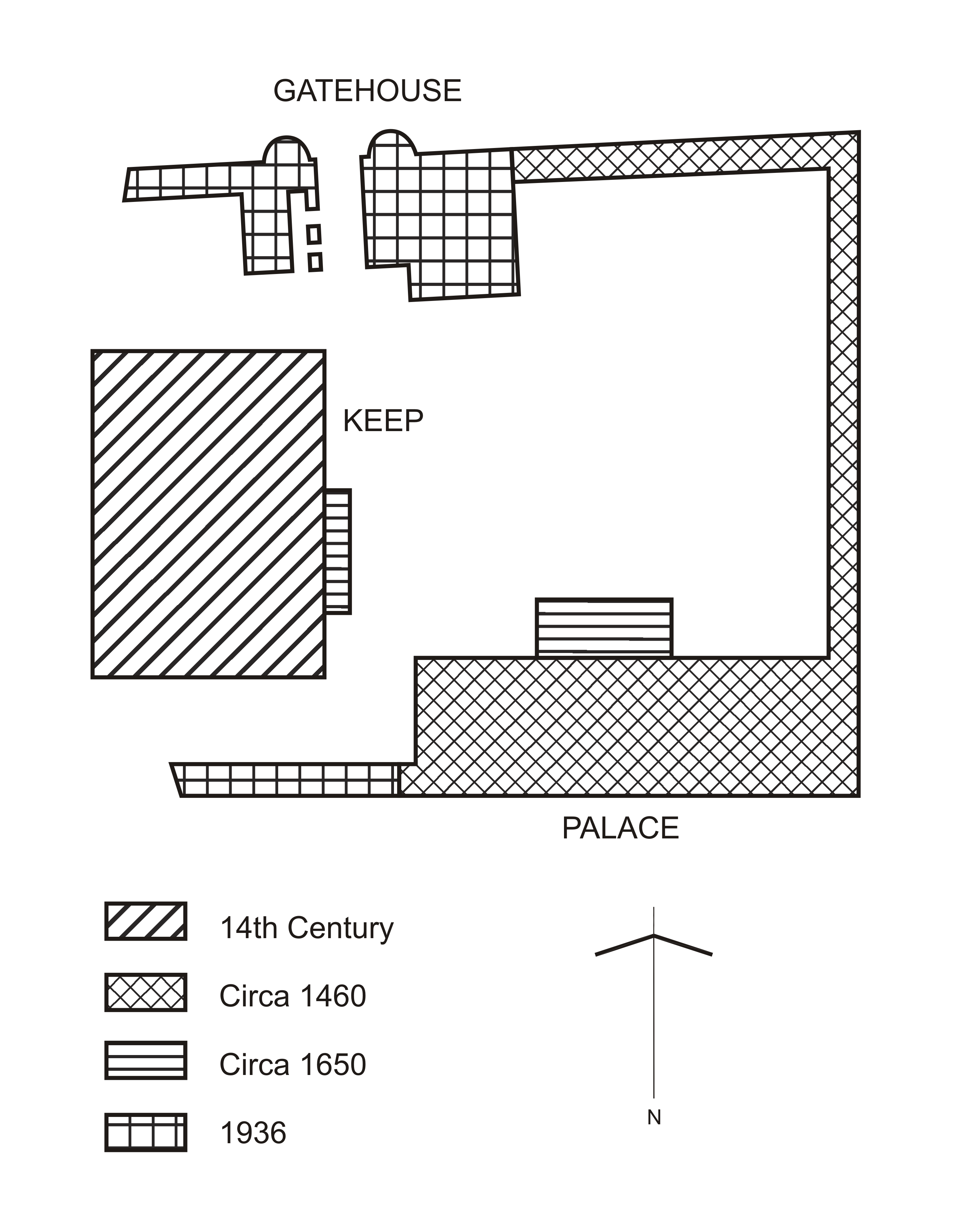 floor plan of Dean Castle, Scotland